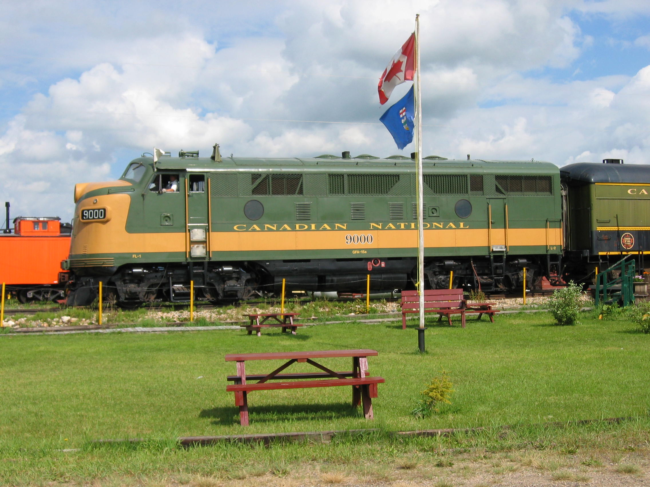 Canadian National Railway locomotive #9000 preserved at the Alberta Railway Museum near Edmonton. Class GFA-15a, built May 1948.